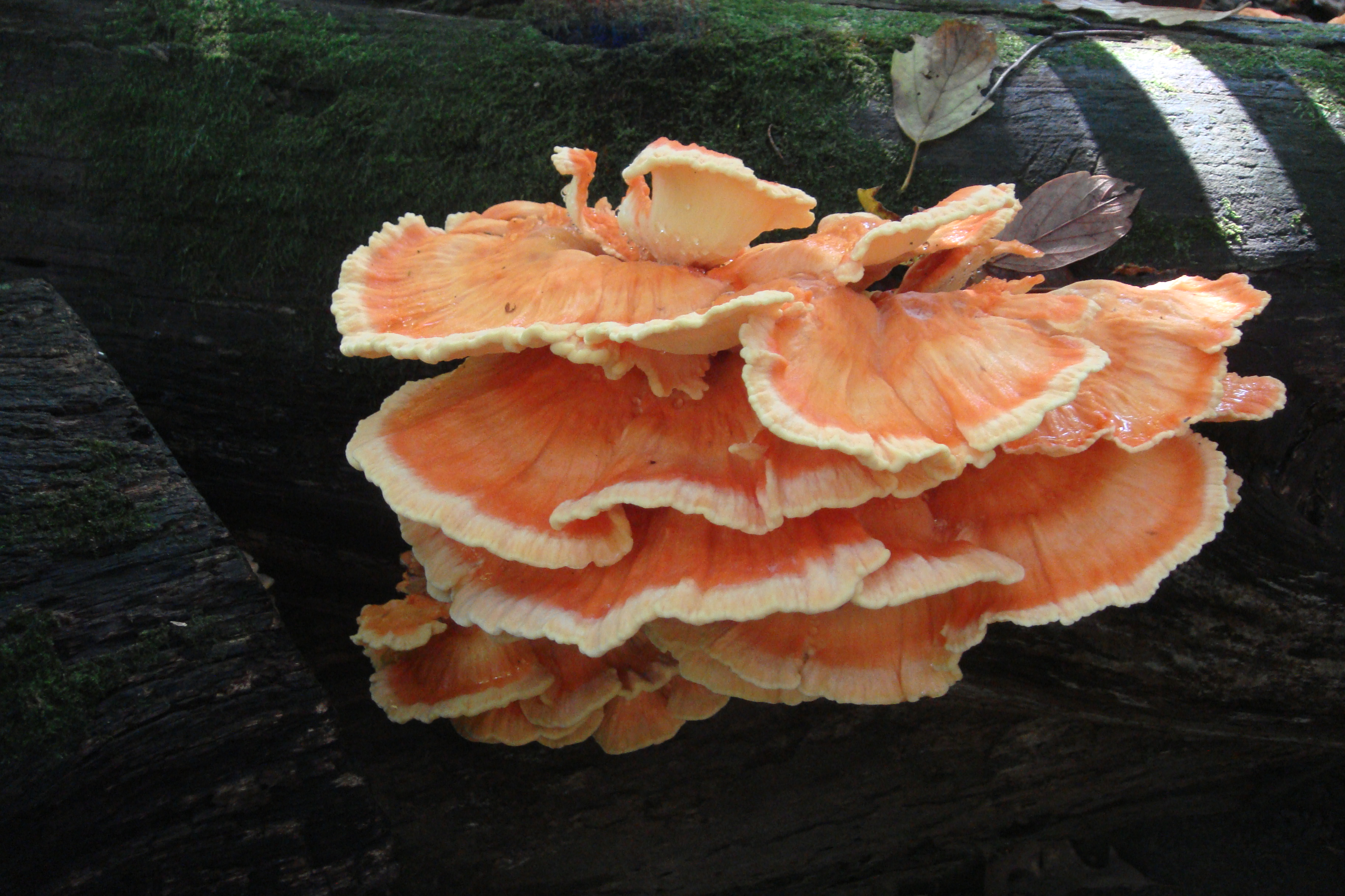 Chicken of the Woods (Laetiporus cincinatus due to the white pores, and crimson orange) in Prospect Park, Brooklyn, New York on October 5, 2012.